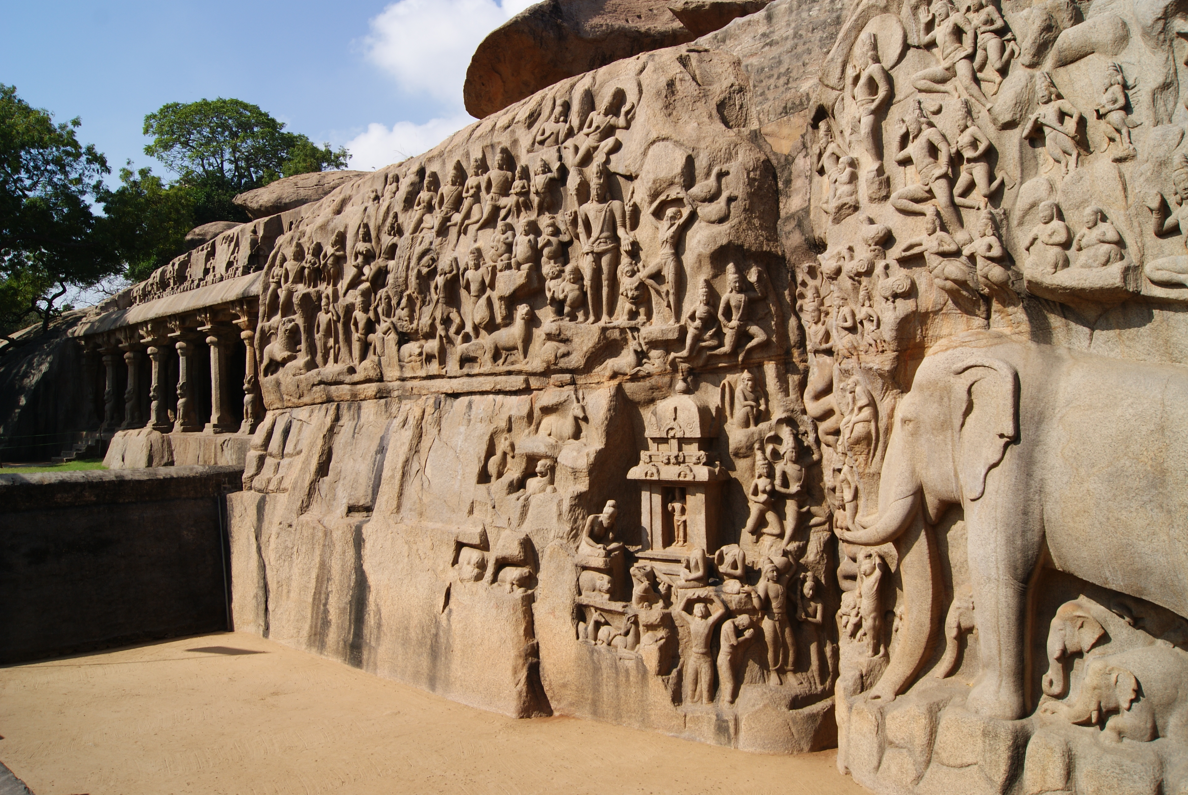 Mahabalipuram caves